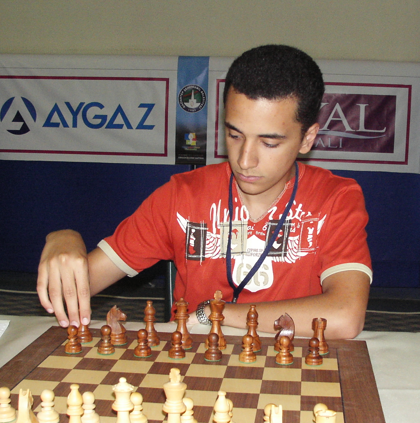 GM Bassem Amin Egypt, at the 2008 World Junior Chess Championship in Gaziantep, Turkey.